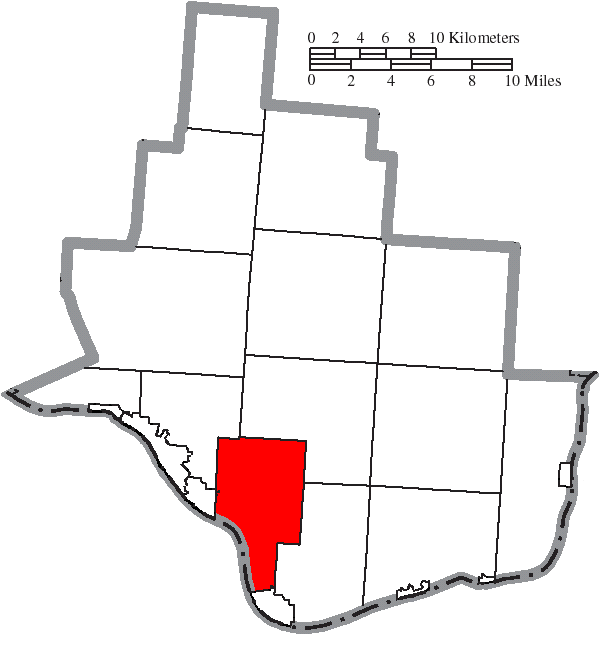 Map of the municipal and township boundaries of Lawrence County, Ohio, United States, as of the 2000 census, with the location of Perry Township highlighted. Township borders are shown only in unincorporated areas in order to differentiate incorporated and unincorporated areas more clearly.